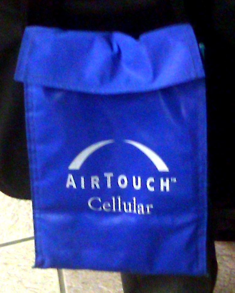 A thermal tote bag bearing the company logo of the now-defunct wireless telephone provider AirTouch. The photograph was taken with a HTC 7 Pro mobile phone camera and edited using ArcSoft PhotoStudio 5.5 (crop, brightness, contrast)